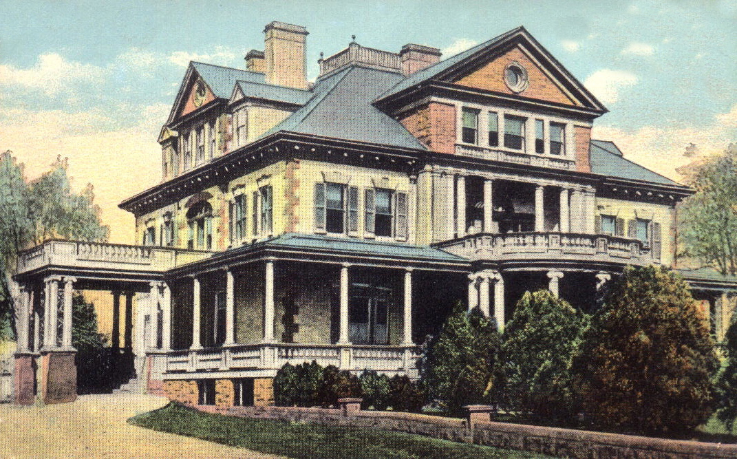 This is a postcard view of the Portner family summer home, Annaburg, located in Manassas, Virginia. Robert Portner was a successful beer brewer based in Alexandria, Virginia, who shipped as far as Augustua, Georgia.